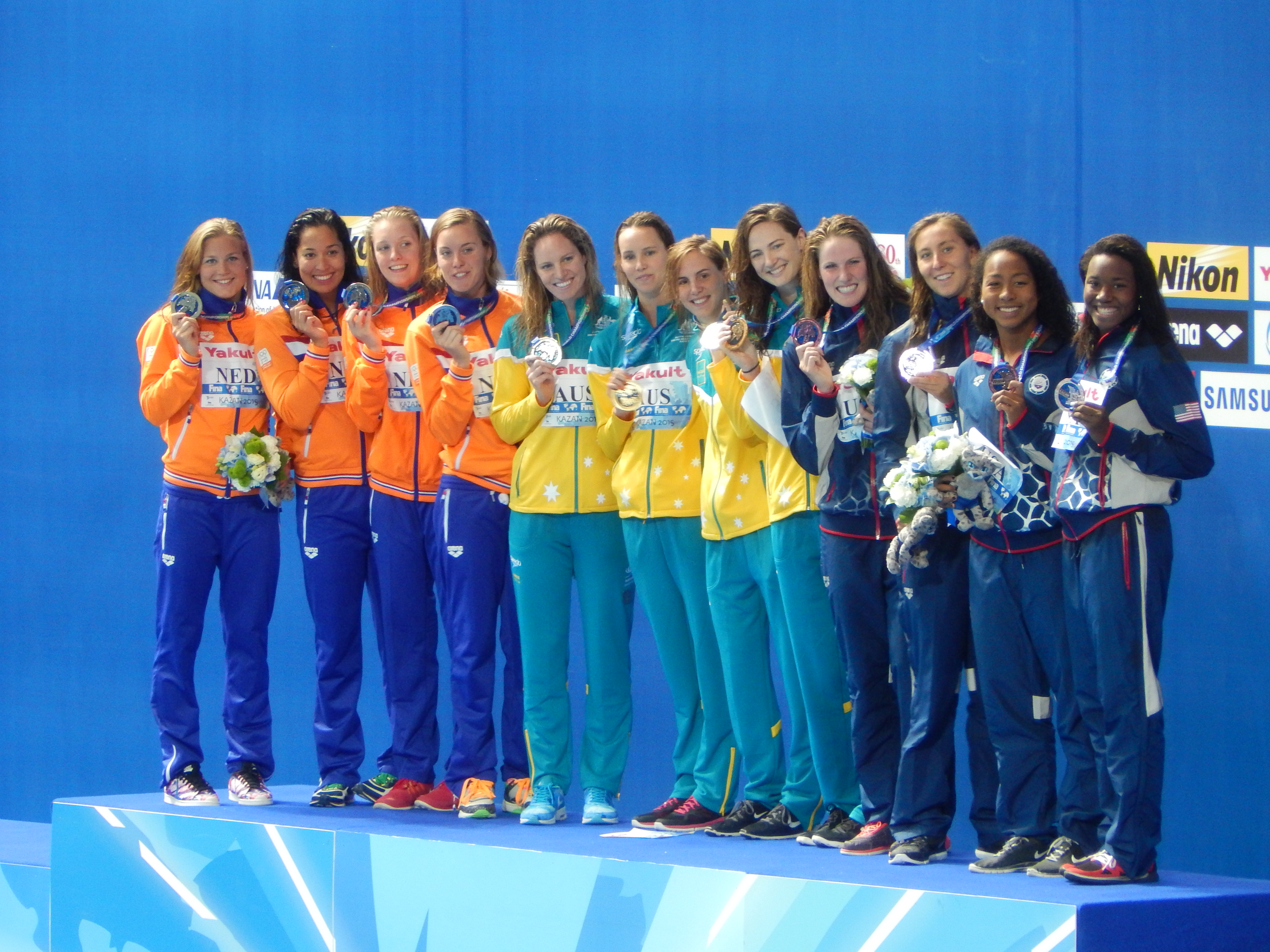 Victory Ceremony of women's 4×100 metres freestyle relay at the 2015 World Champs in Kazan